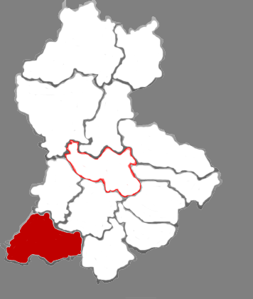 Location of Shilou county in Lüliang City, China